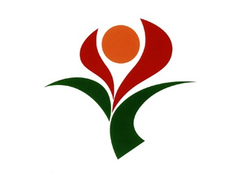 Flag of Soo Kagoshima